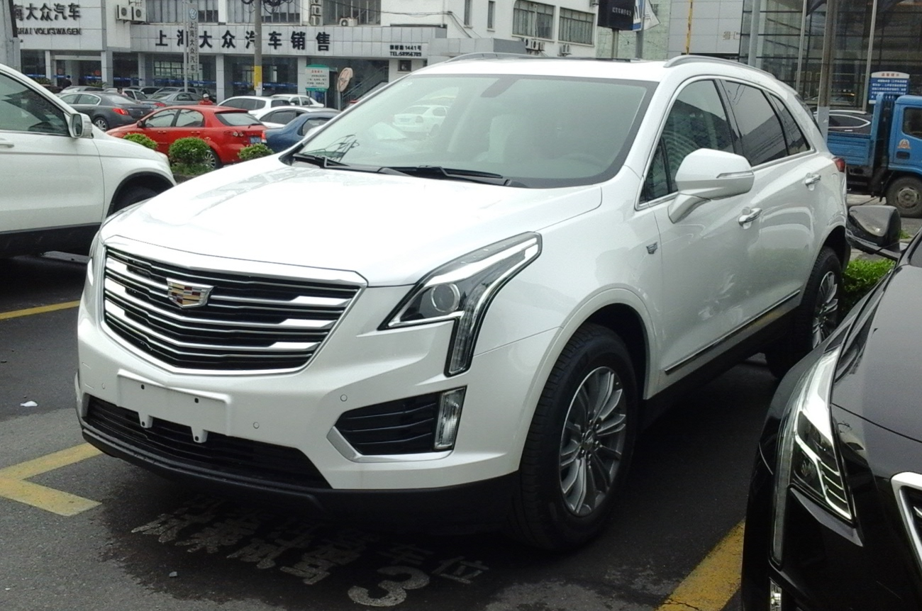 Cadillac XT5 photographed in Shanghai, China.